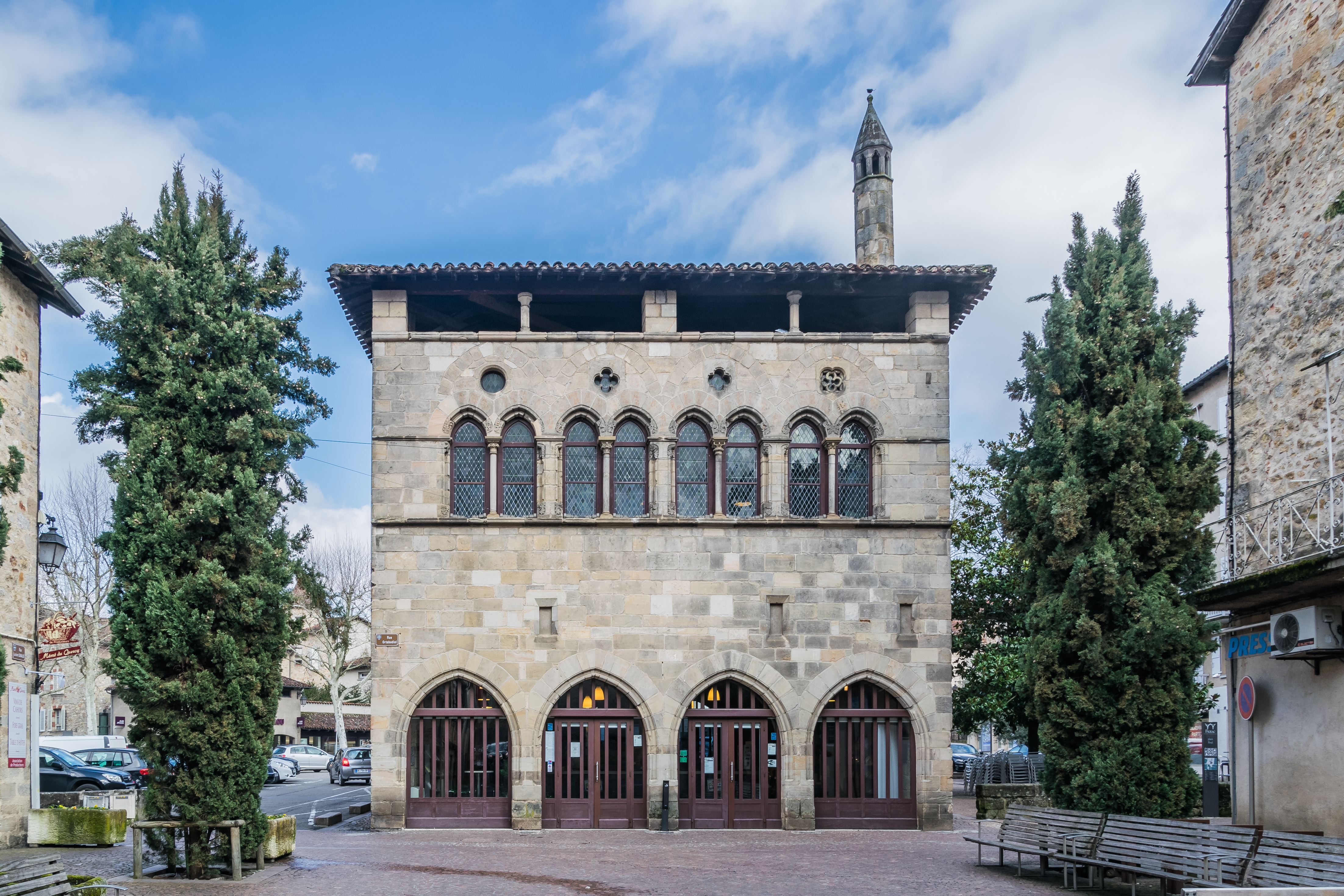 Hôtel de la Monnaie in Figeac, Lot, France .